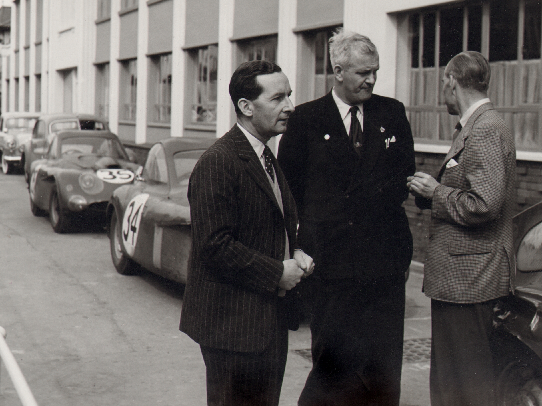 Sir George Stanley Middleton White with the Bristol 450 Le Mans cars